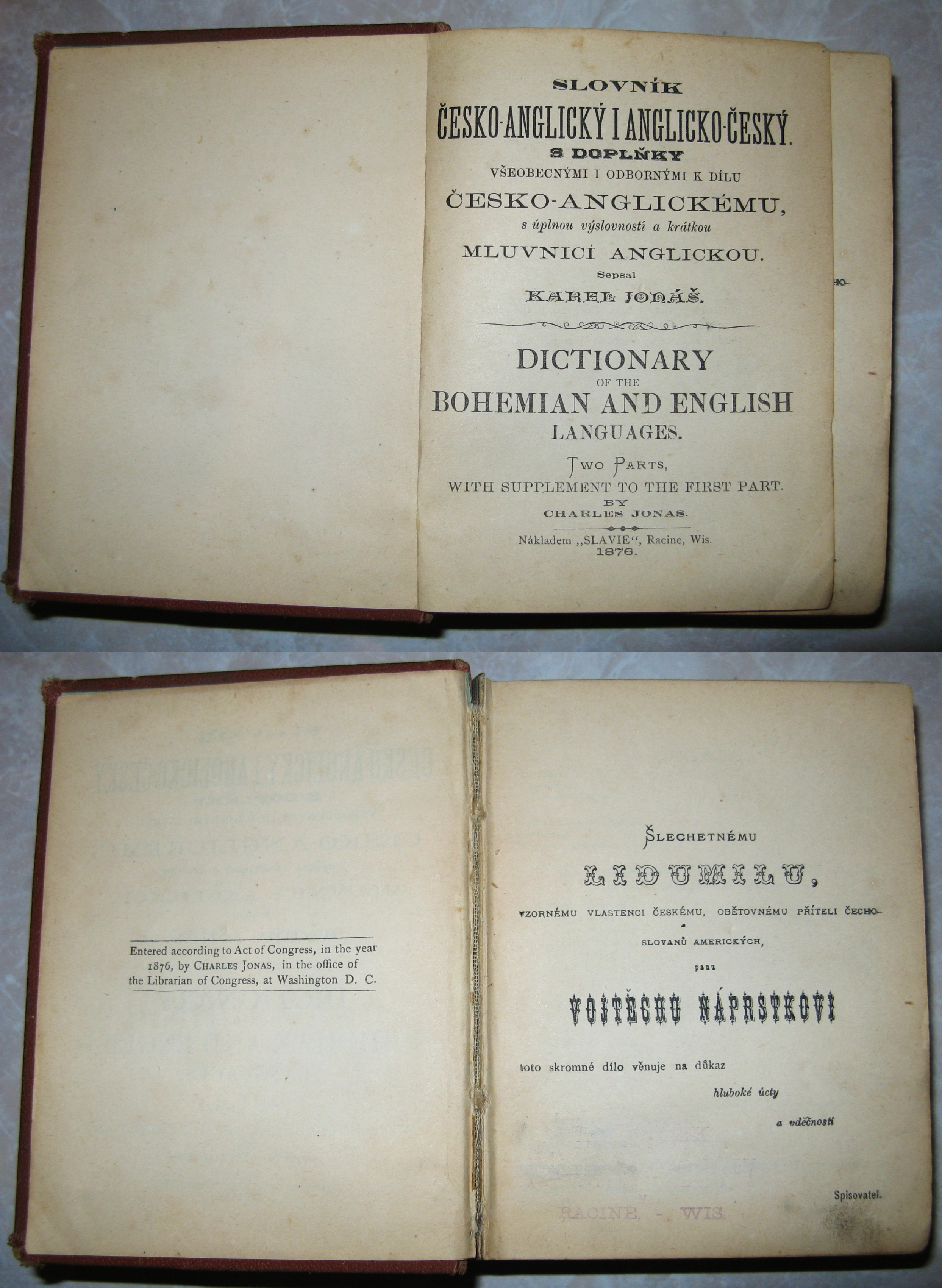 Dictionary of the Bohemian and English Languages. Two Parts, with supplement to the first part. By Charles Jonas. Racine, Wis., 1876.